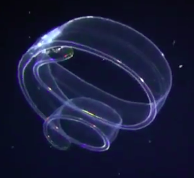 Cestum veneris in Hawaii, screenshot from Black Water Dive